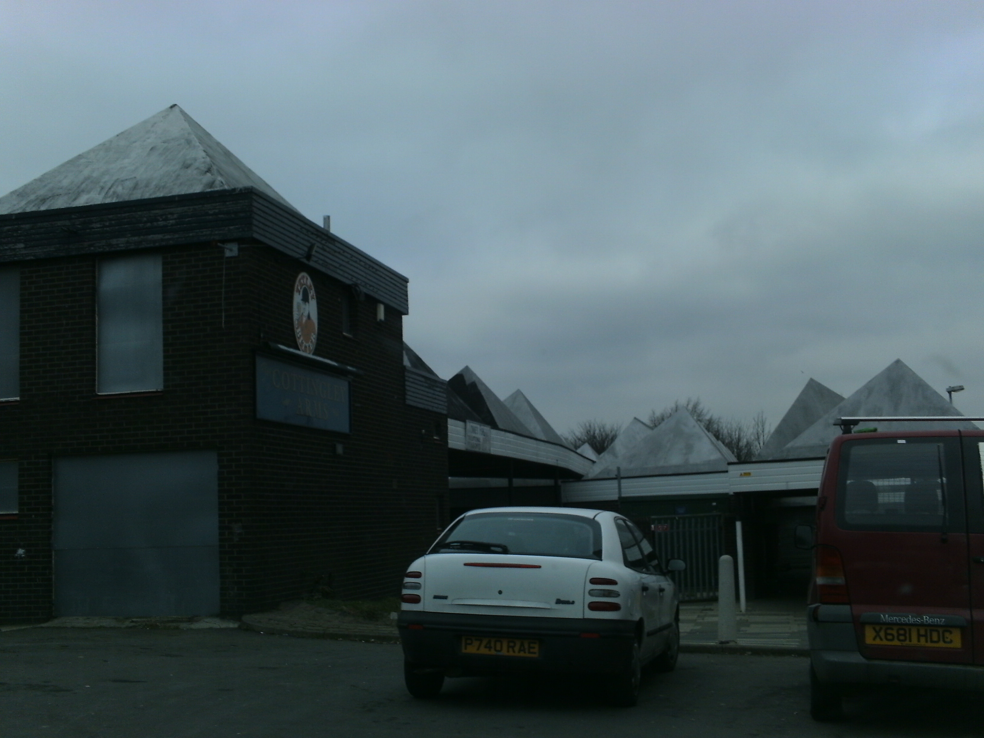 Shops and the closed Cottingley Arms pub in Cottingley, Leeds, UK